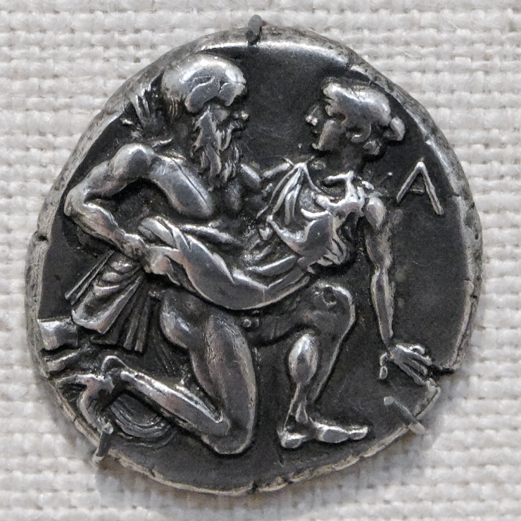 Satyr abducting a nymph. Obverse of a silver tetradrachm of Thasos.